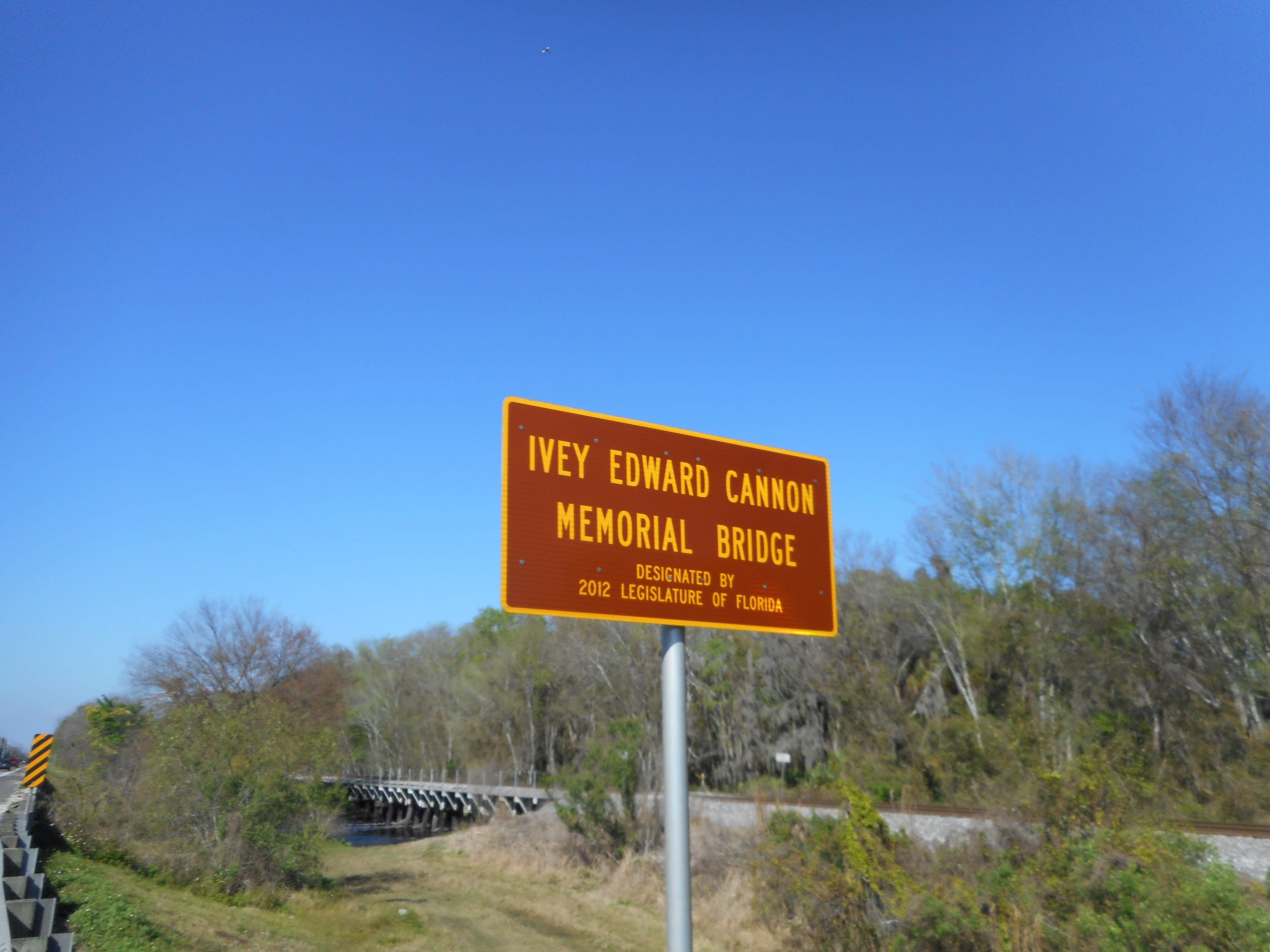 Sign for the Ivey Edward Cannon Memorial Bridge over Blackwater Creek in northern Hillsborough County, between Plant City and Crystal Springs.